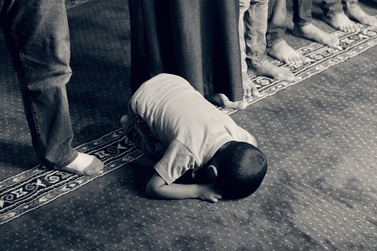 A lovely photo of a muslim boy praying in the mosque.